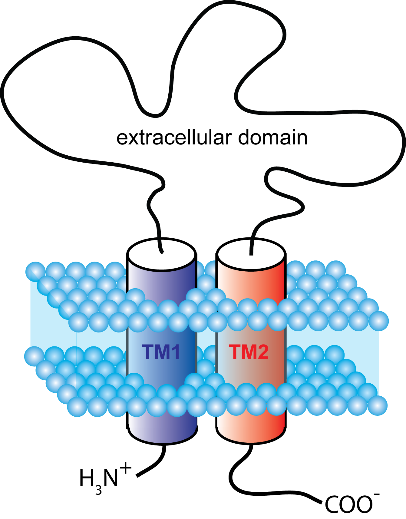 Schematic diagram showin P2X receptor subunit topology.